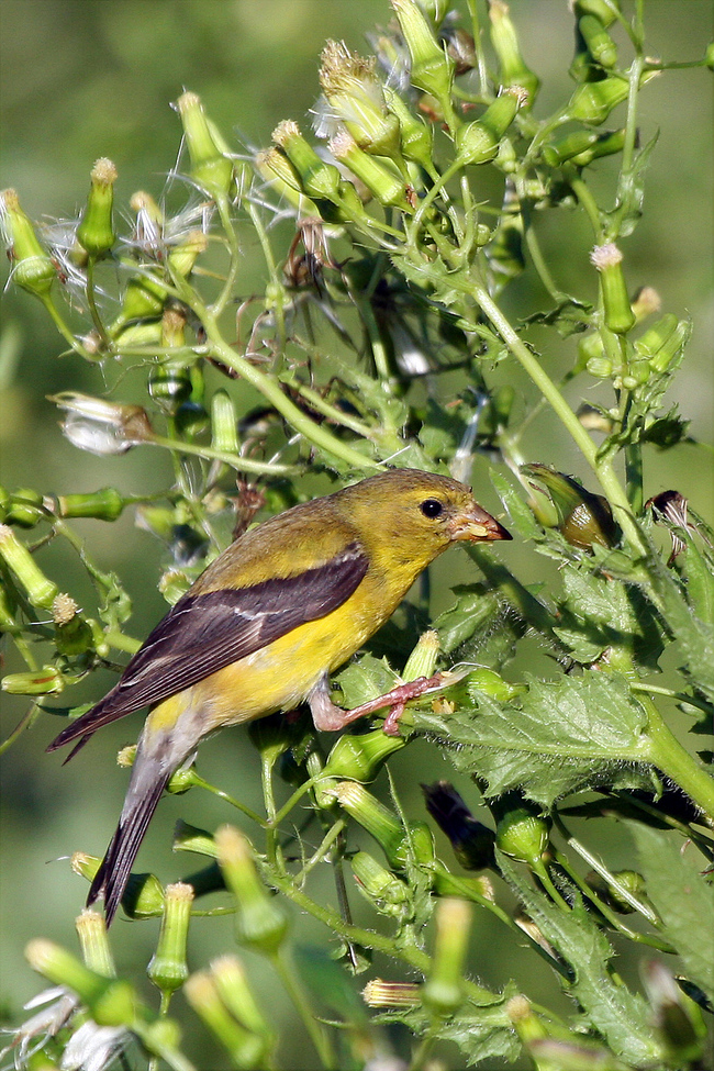 This lady Goldfinch was munching away on some tasty flowers at Huntley Meadows Park in Alexandria, VA.